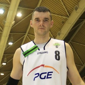 Robert Witka - Turów Zgorzelec, sezon 2008/09